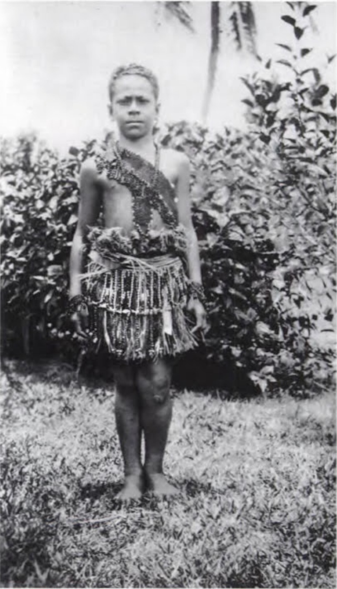 Prince Tāufaʻāhau, aged 10, as one of the members of Tupou College choir touring Australia, 1928.